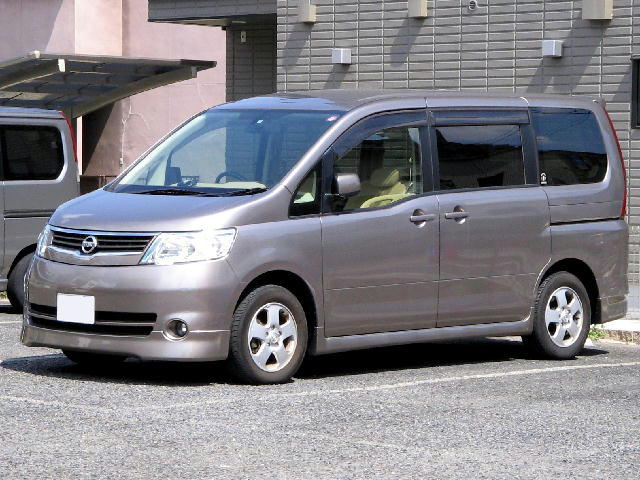 Nissan "Serena" (C25 / 3rd generation) 2005/5-2007/12